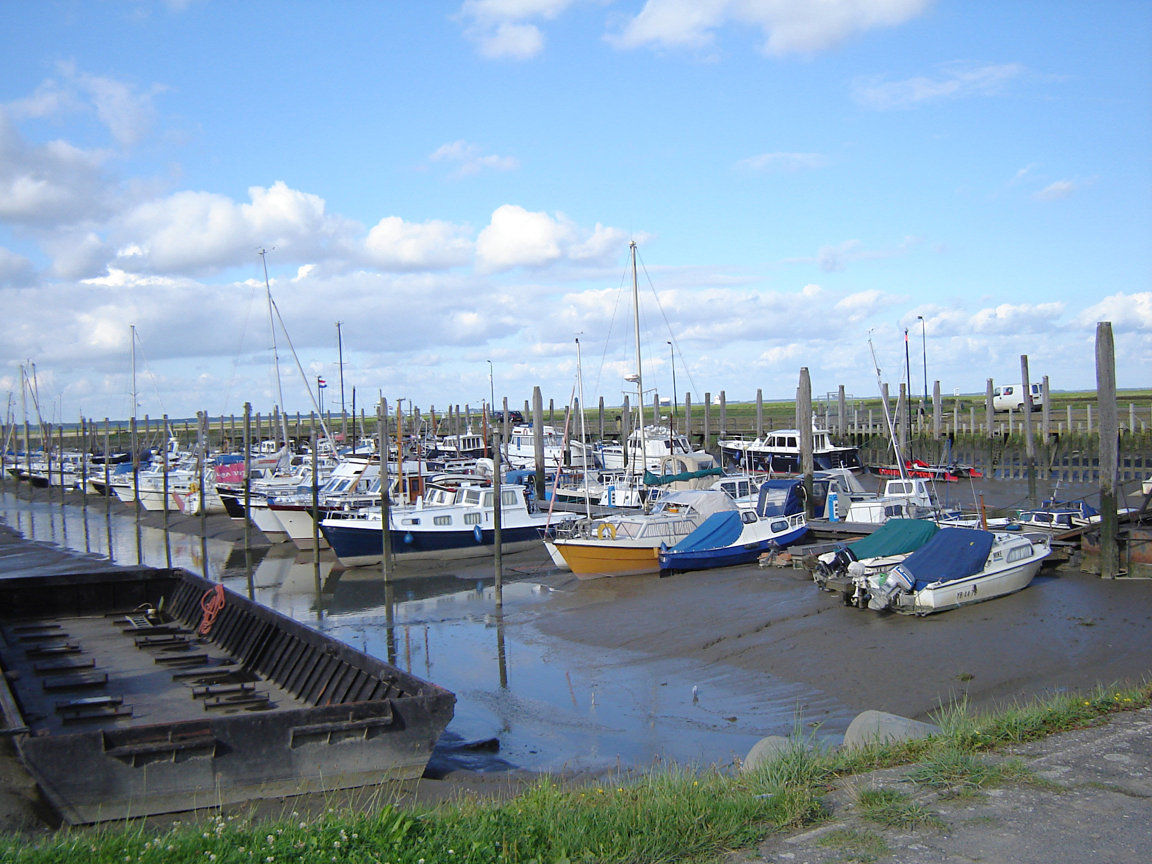 Tidal harbour of Paal. Paal, Hulst, Zeeland, Netherlands.